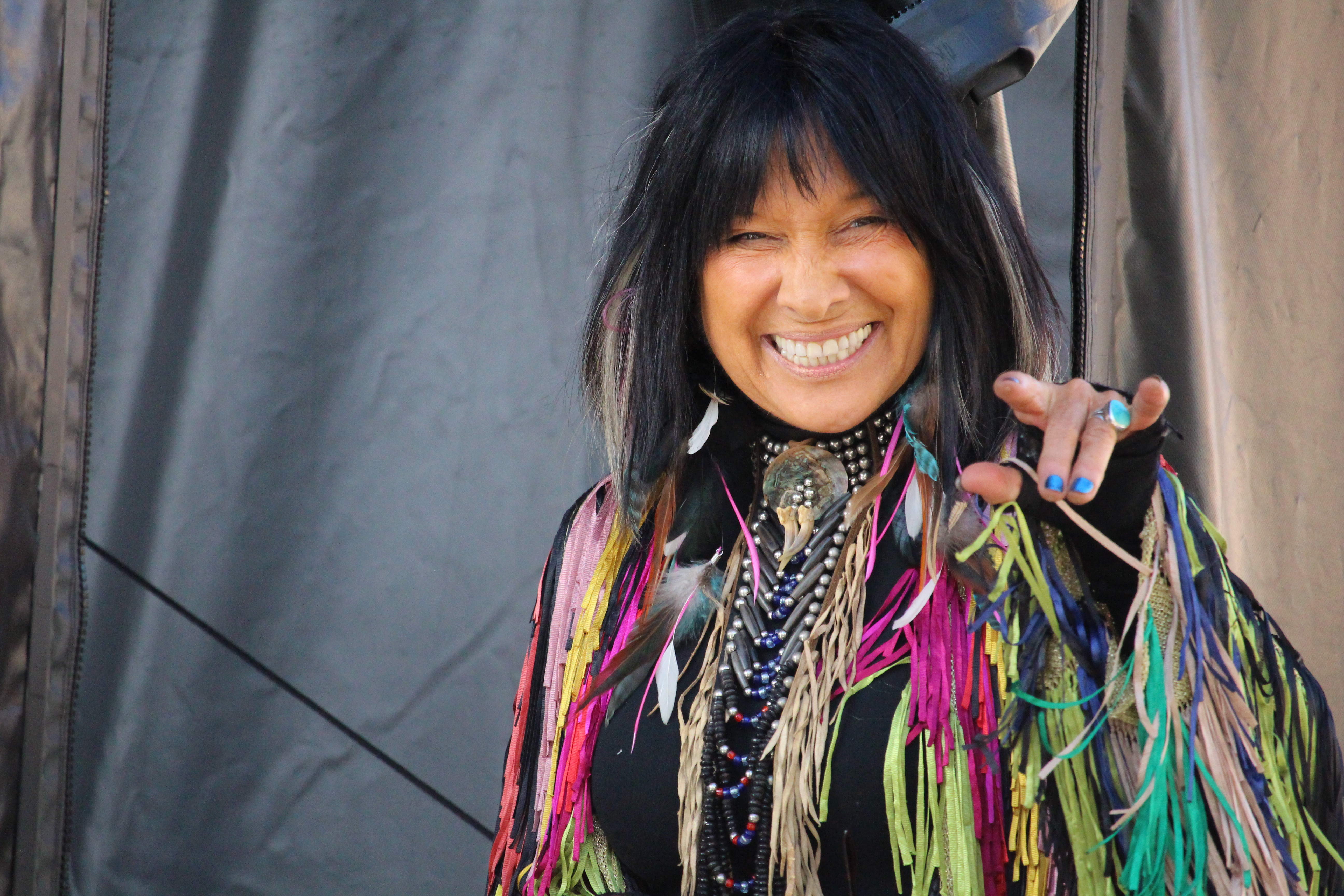 Buffy Ste. Marie at Truth and Reconciliation Commission Concert, Ottawa, Canada